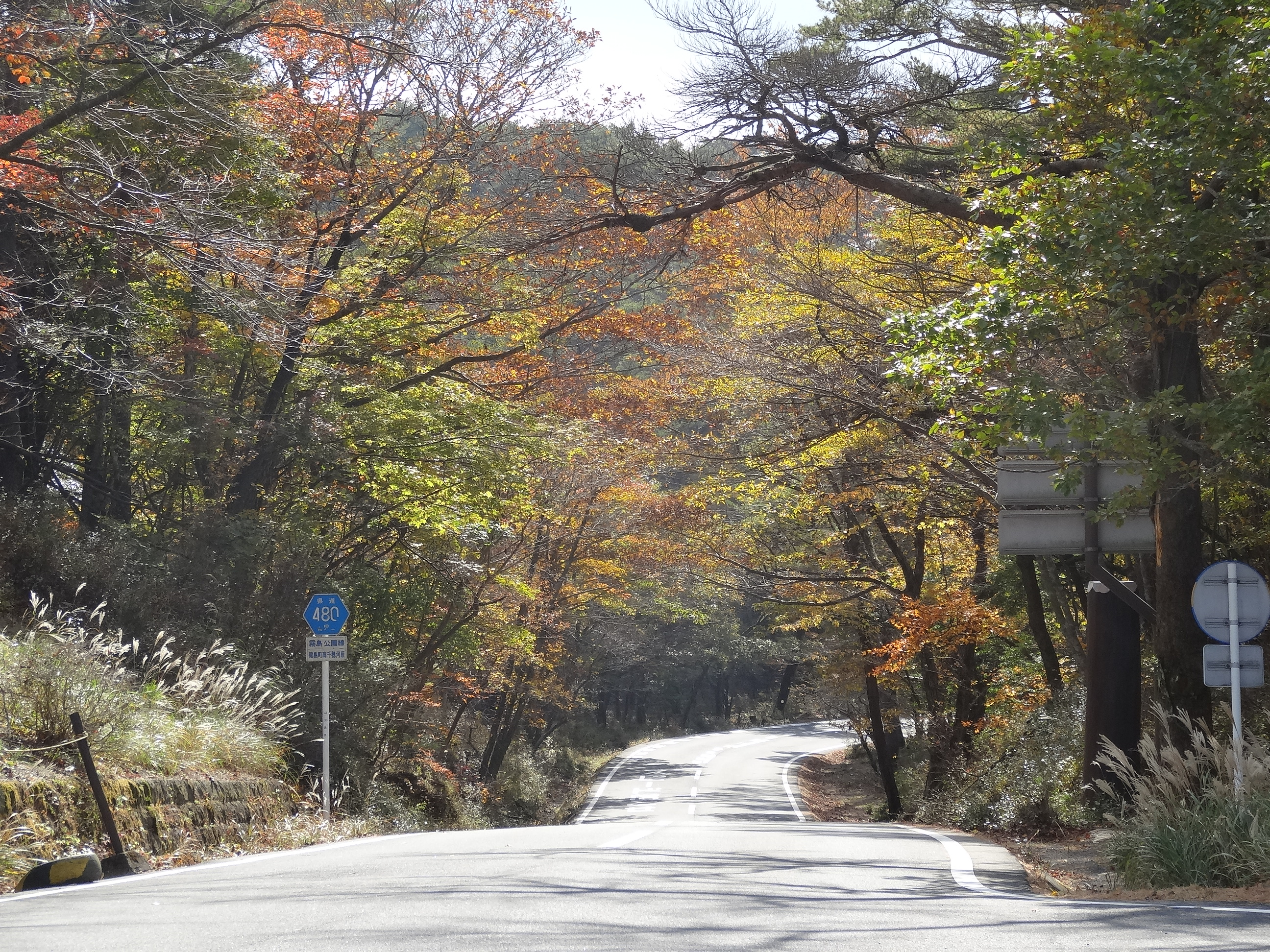 Kagoshima Prefectural Road No.480 Kirishima Park Line (Around the "Takachiho-Gawara", Kirishima City, Kagoshima, Japan)